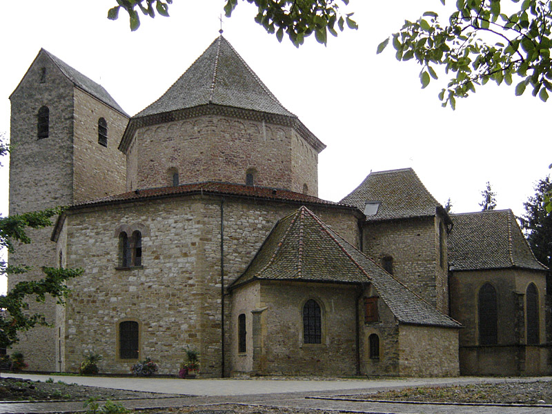 Octogonal plan romanesque abbey-church of Ottmarsheim (Haut-Rhin, Alsace, France), replica of the Carolingian cathedral of Aachen (viewed from the South-East). Devoted by the pope Leo IX in 1049.